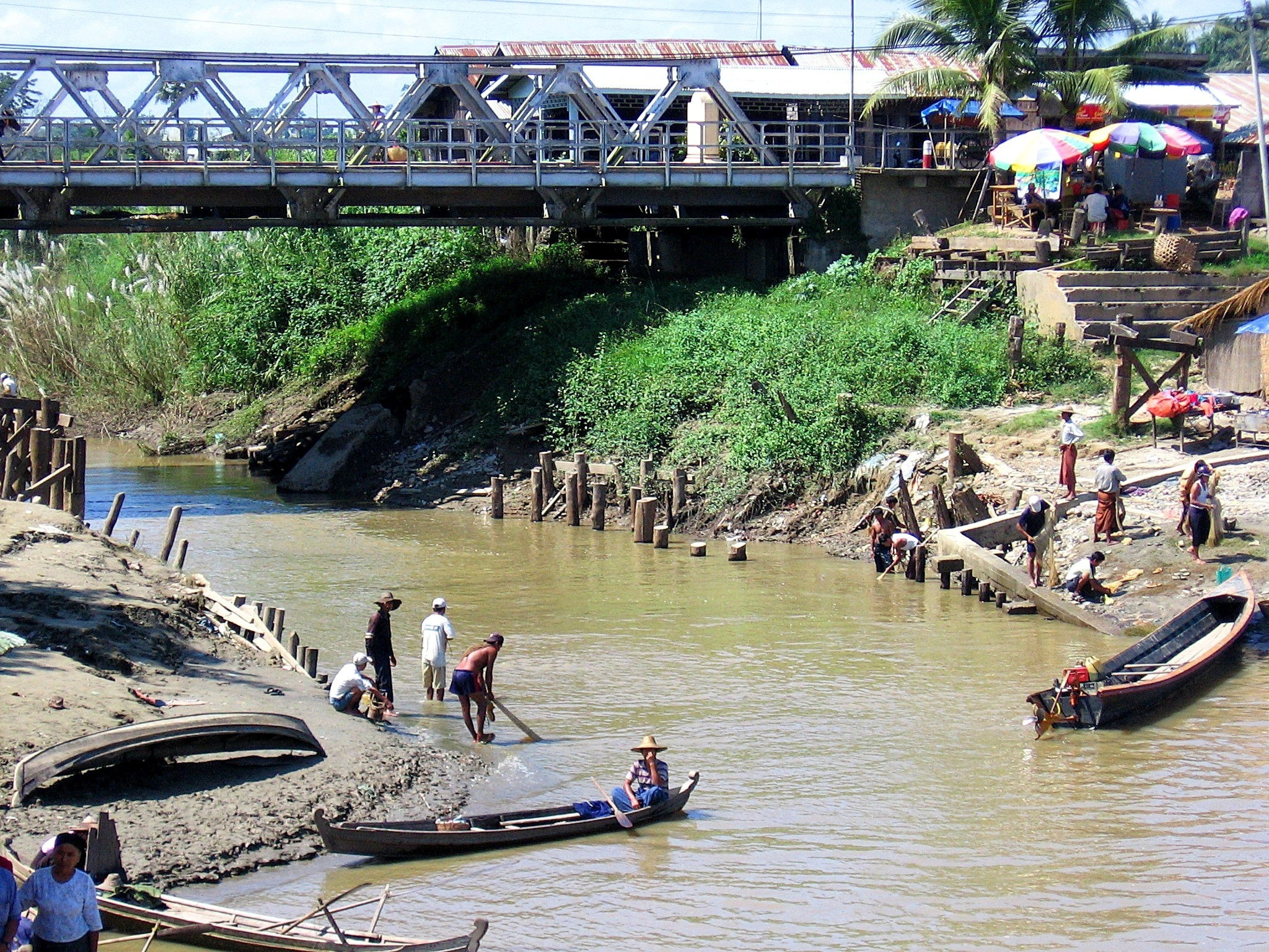 Ayeyarwady River between Bhamo and Khata in Myanmar.